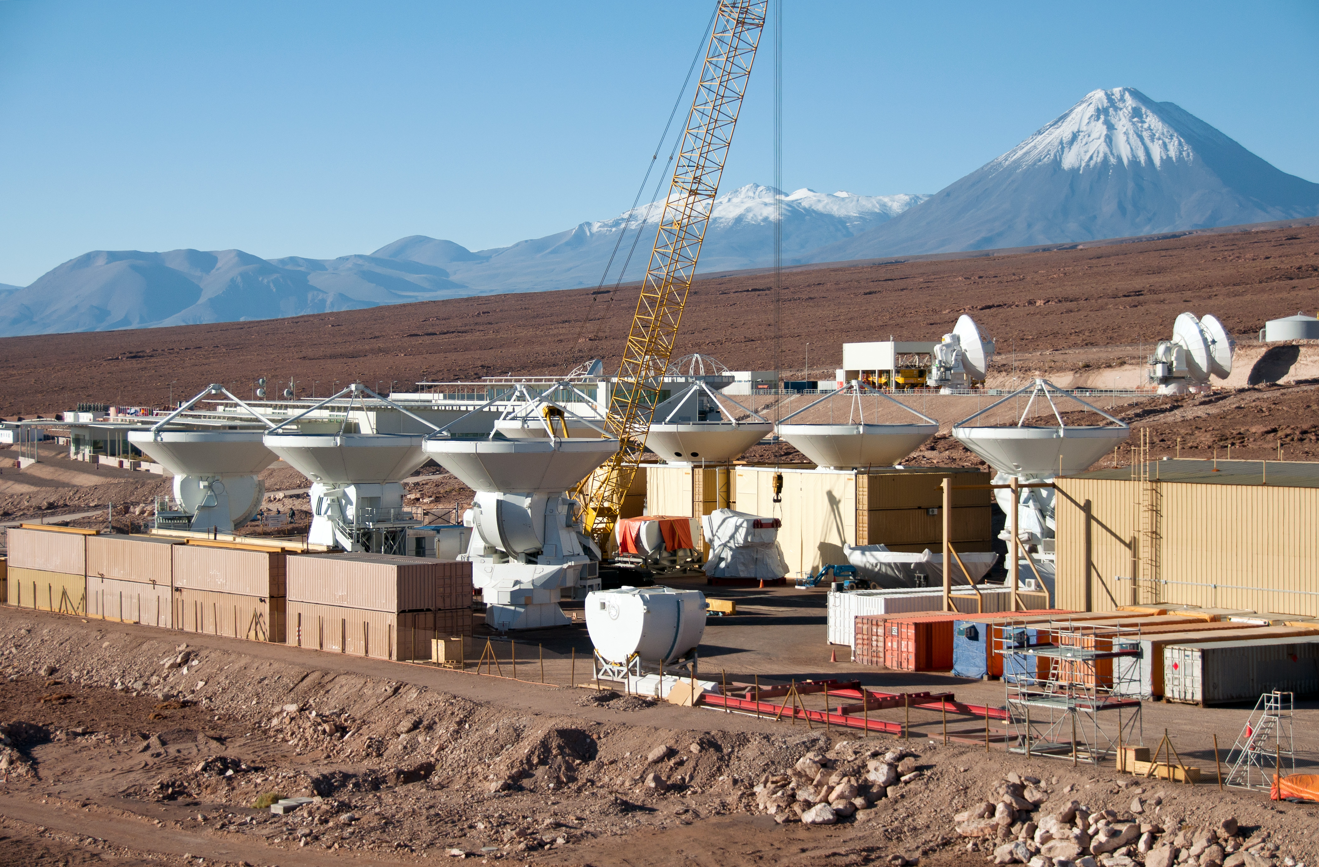 This is a helicopter view of the Atacama Large Millimeter/submillimeter Array (ALMA) Operations Support Facility (OSF) site. In the foreground is the AEM Consortium’s [1] facility where the European antennas are assembled and tested. Seven of the 25 European antennas can be seen, pointing towards the sky. More parts, including a receiver cabin and antenna base, await the next assembly. Each antenna has a dish 12 metres in diameter, and weighs about 95 tonnes. Once an antenna is assembled and ready, it is handed over to the ALMA project and moved to the nearby OSF technical area, which is the area in the background, where more antennas can be seen. Here, it is integrated into the rest of the observatory’s systems. Finally, after further tests by the ALMA team, it is moved from the 2900 metres high OSF to its workplace, the Array Operation Site (AOS), located at an altitude of 5000 metres on the Chajnantor Plateau. Also in the background, the two bright yellow ALMA antenna transporter vehicles, which are responsible for moving the antennas around and between the OSF and AOS sites, can be seen in their parking area. Further in the distance are the majestic snow-covered peaks of the high Andes, with the distinctive conical shape of the 5920-metre Licancabur volcano on the right. ALMA, an international astronomy facility, is a partnership of Europe, North America and East Asia in cooperation with the Republic of Chile. ESO, the European partner in ALMA, is providing 25 12-metre antennas through a contract with the European AEM Consortium. ALMA will also have 25 North American antennas, and 16 East Asian antennas. Notes [1] The AEM Consortium is composed of Thales Alenia Space, European Industrial Engineering, and MT-Mechatronics.